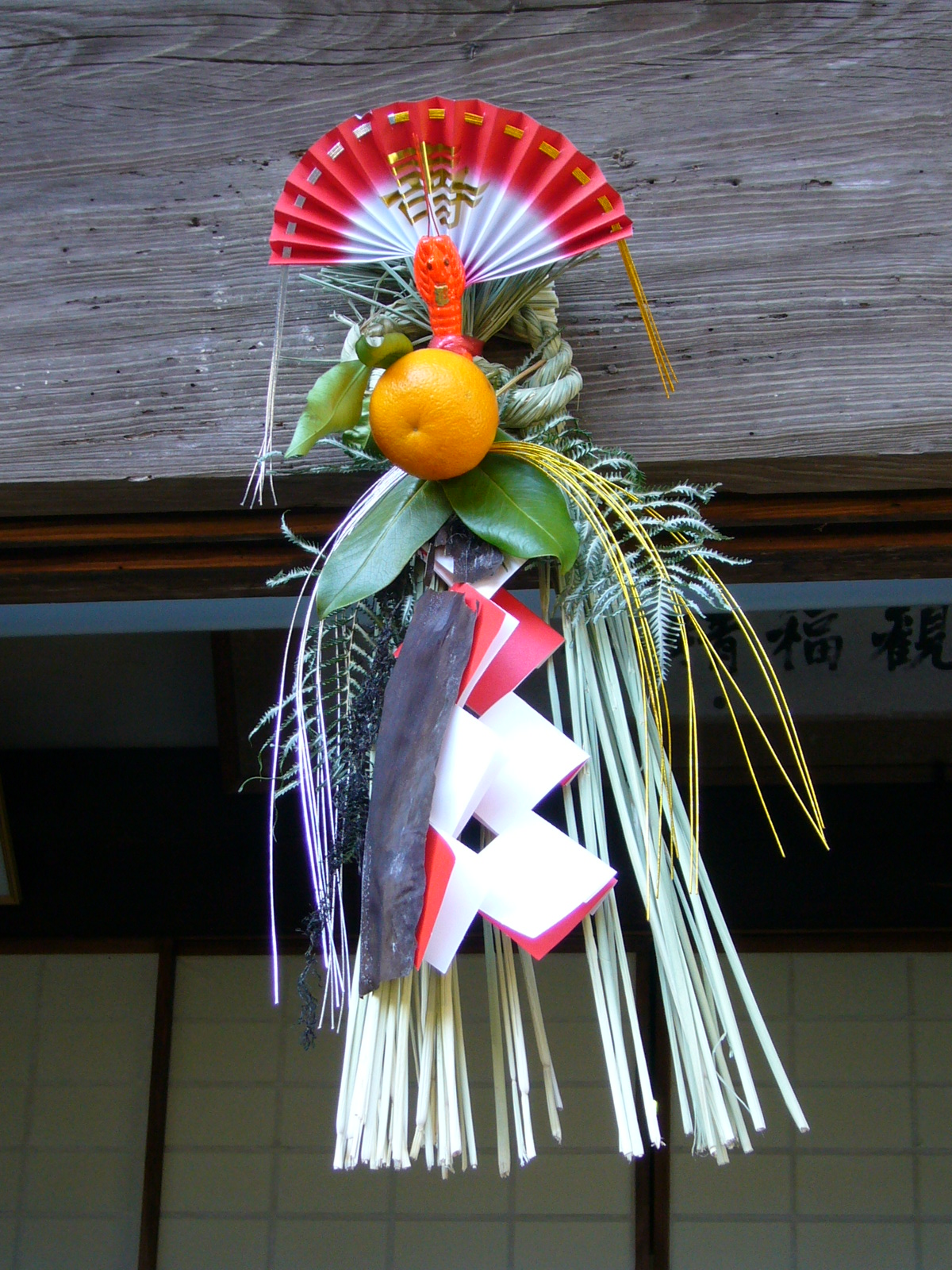 New Year's decorations the upper part of the entrance,syougatsu-kazari,katori-city,japan